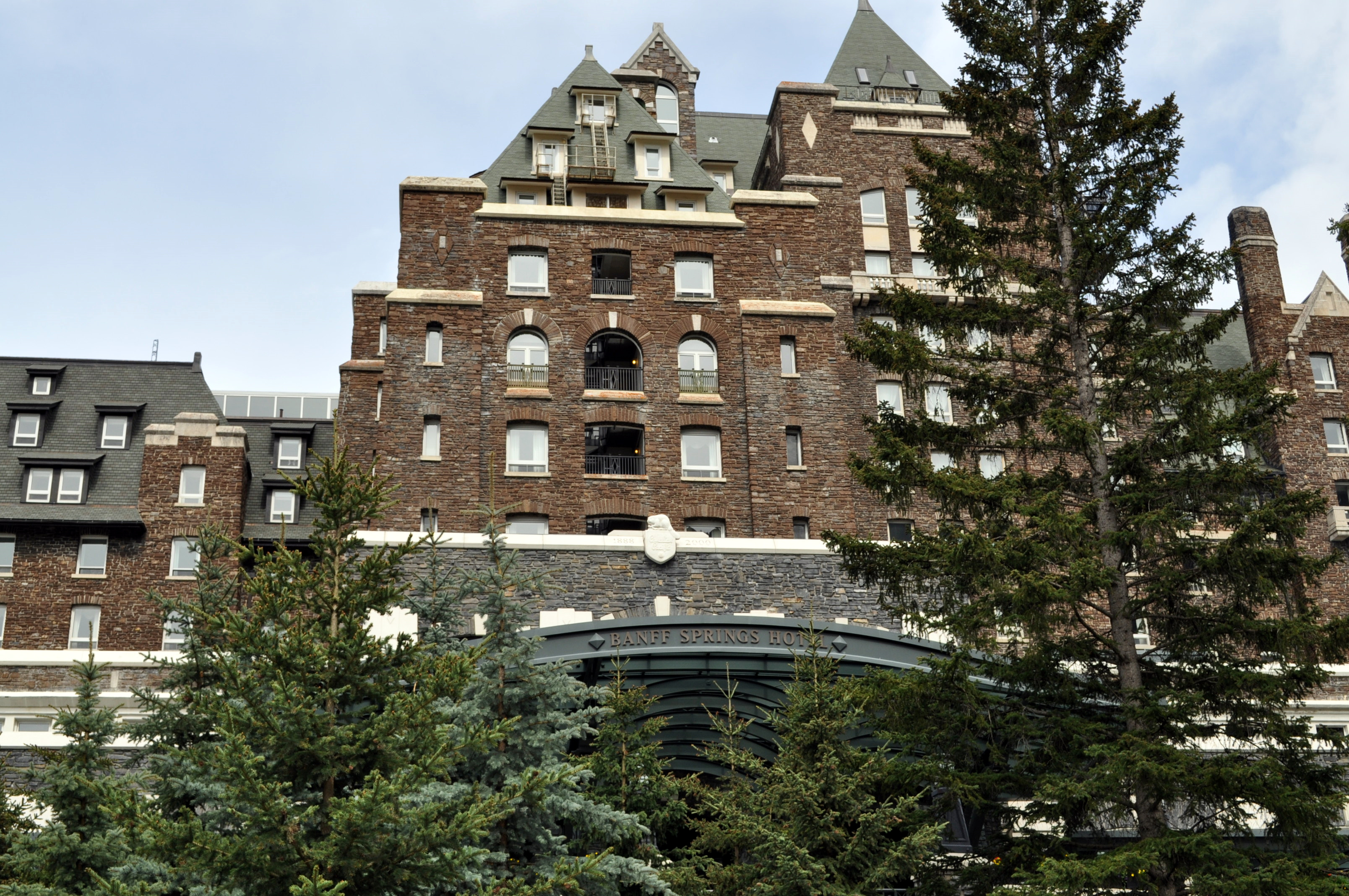 Front view of Banff Springs Hotel